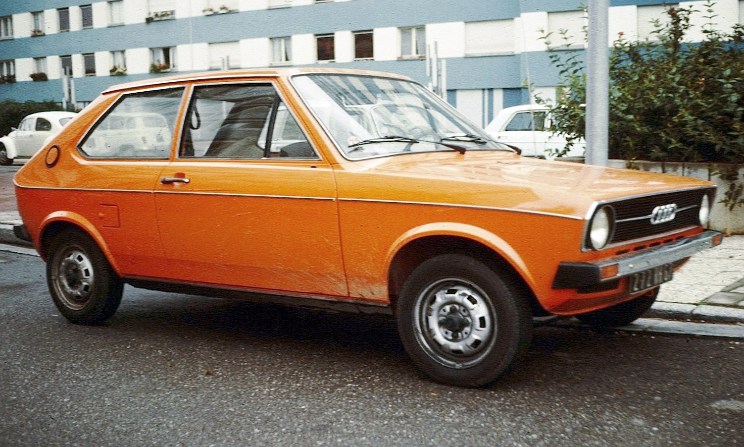 Audi 50 soon after the introduction of the model